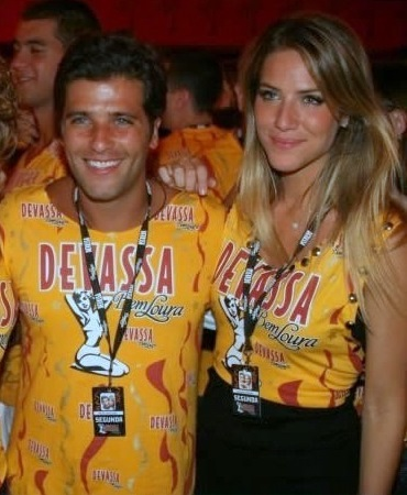 Giovanna Ewbank & Bruno Gagliasso.